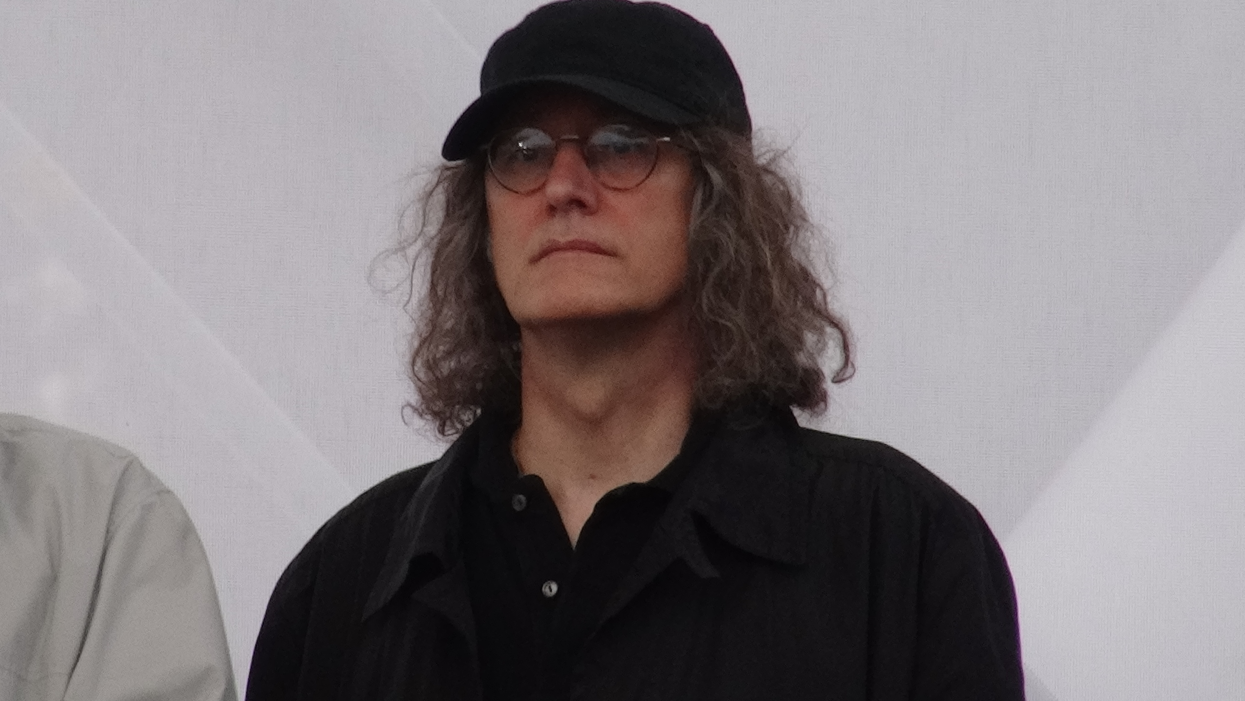 Gianroberto Casaleggio 23 maggio 2014